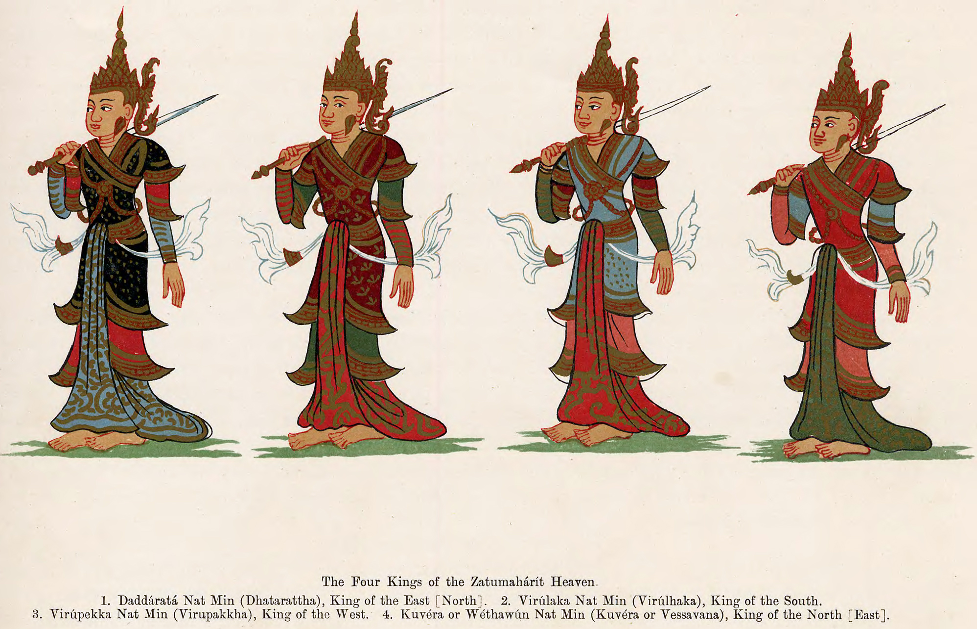 4 Guardian Kings in Burmese representation